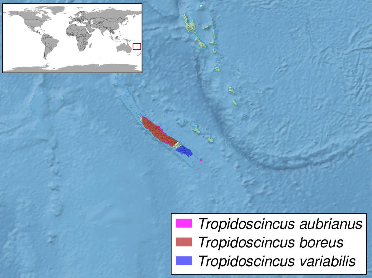 geographic distribution of Tropidoscincus. Included species according to RDB: T. aubrianus, T. boreus and T. variabilis